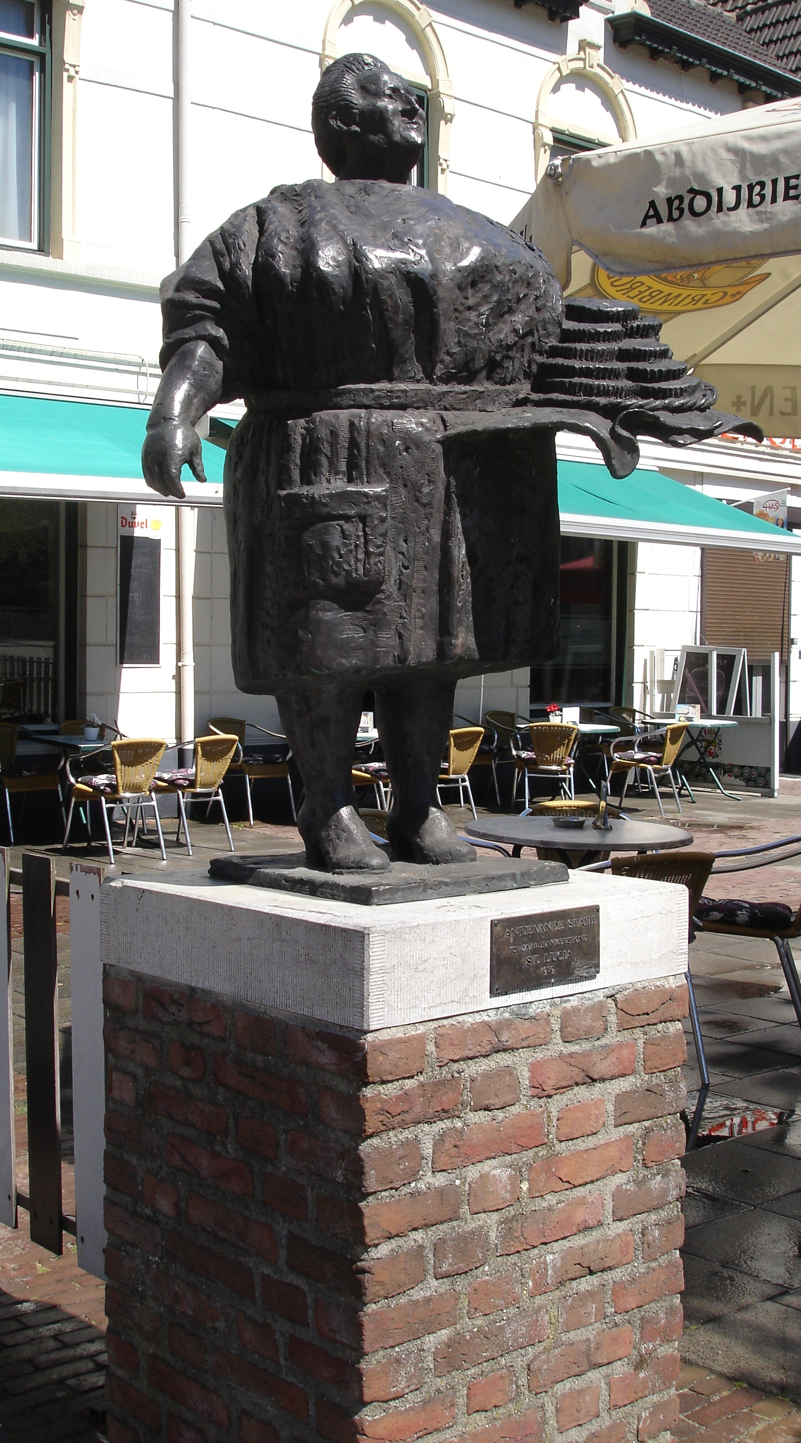 "Antje van de Statie", statue of Maria Hubertina Hendrix (1877-1936). A famous person in the city of Weert (Netherlands), who sold Vlaai (fruit pie) to train passengers a the trainstation of Weert